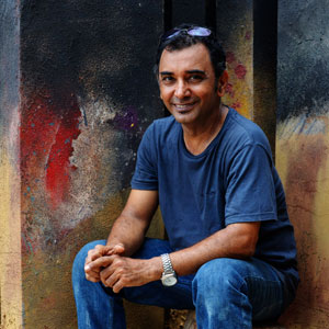 Adil Writer with his artwork